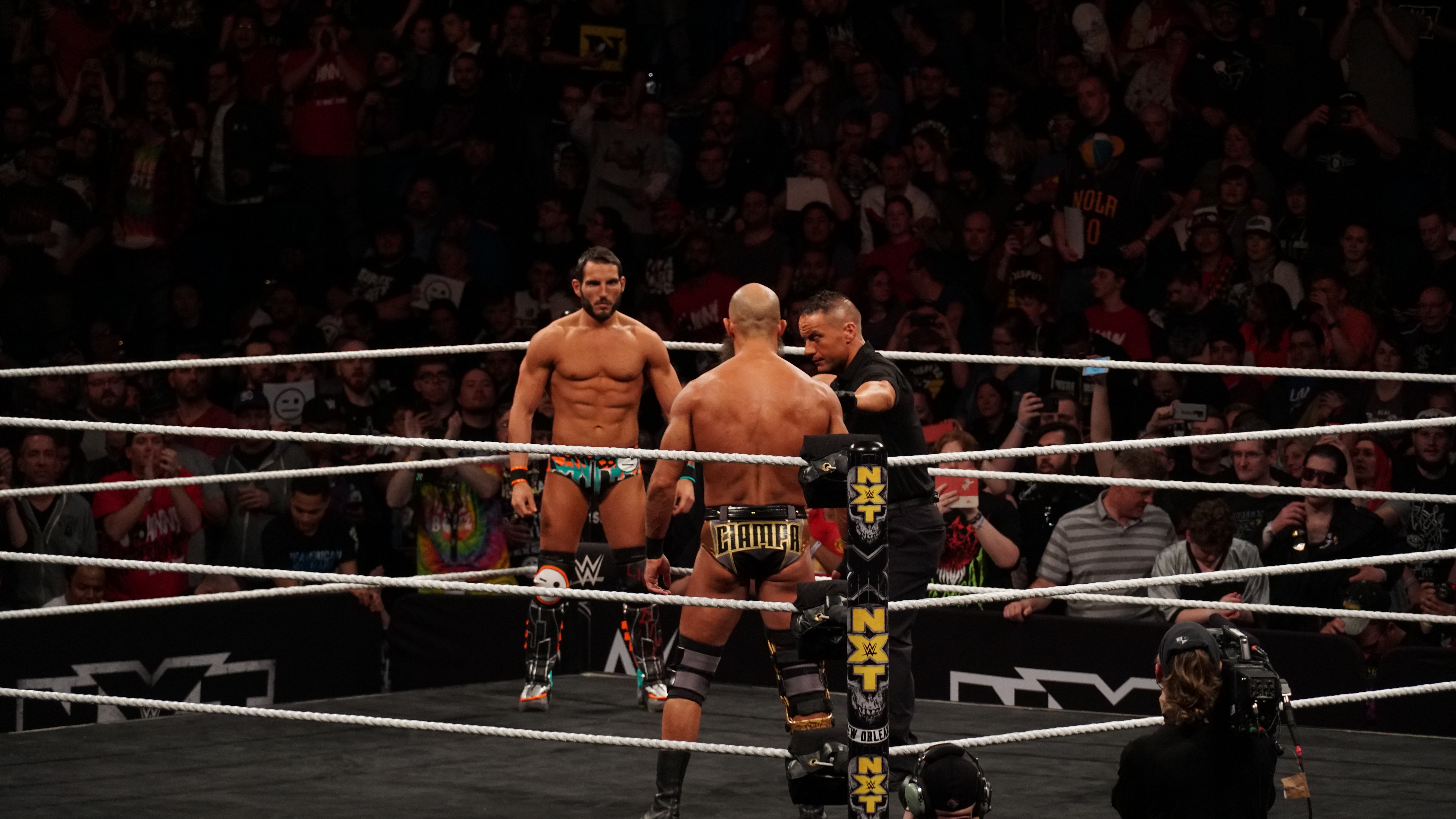 NOLA 2018 - WWE NXT Takeover - New Orleans - Johnny Gargano Vs Tommaso Ciampa Johnny Gargano def. (sub) Tommaso Ciampa (in 36:58) Type of match : unsanctioned Rating : ***** ( Deux semaines a Nola pour la ville et pour WWE Wrestlemania XXXIV Two weeks Nola for the city and for WWE Wrestlemania XXXIV )